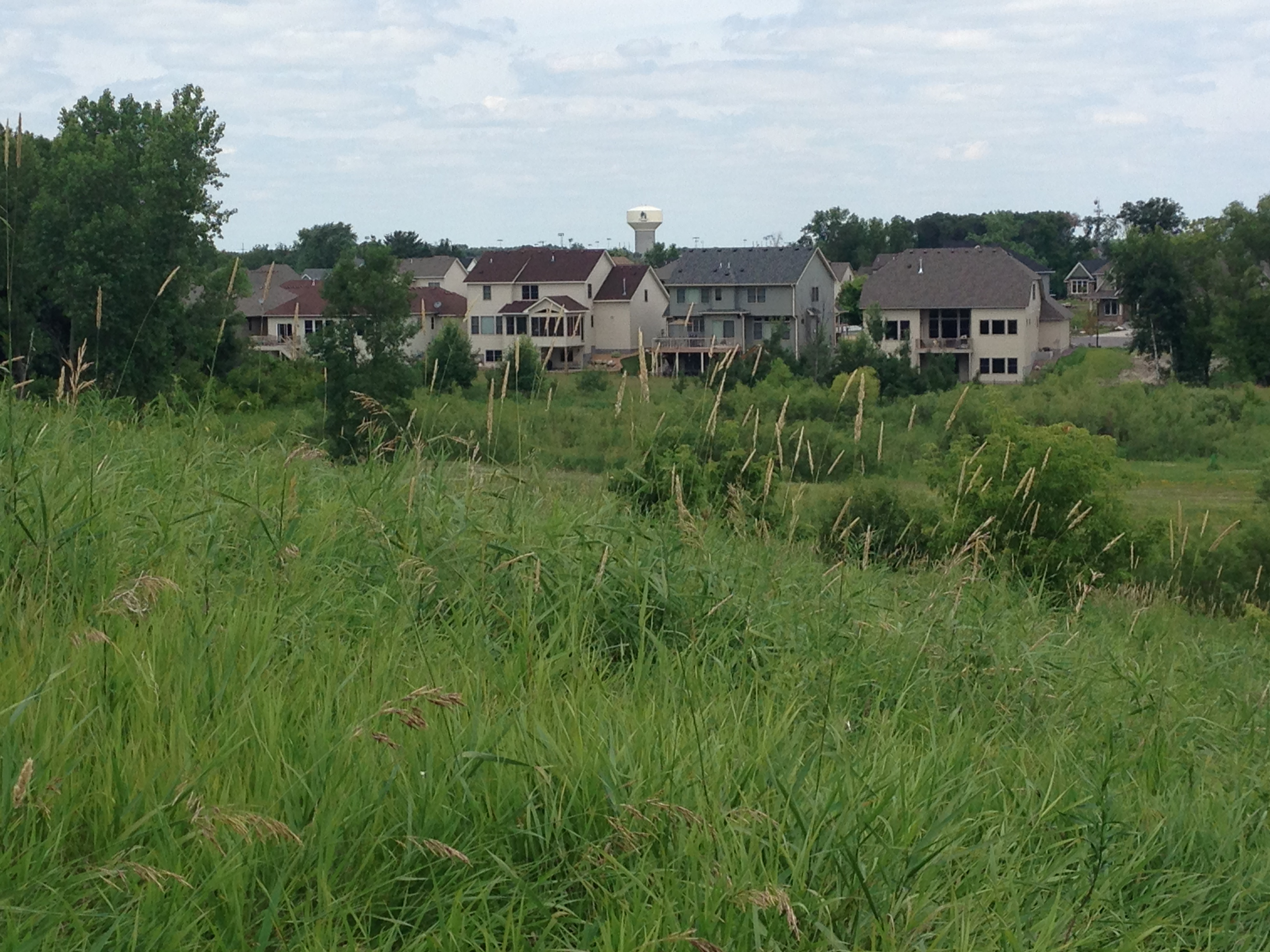 The north side of Lochness Park in Blaine